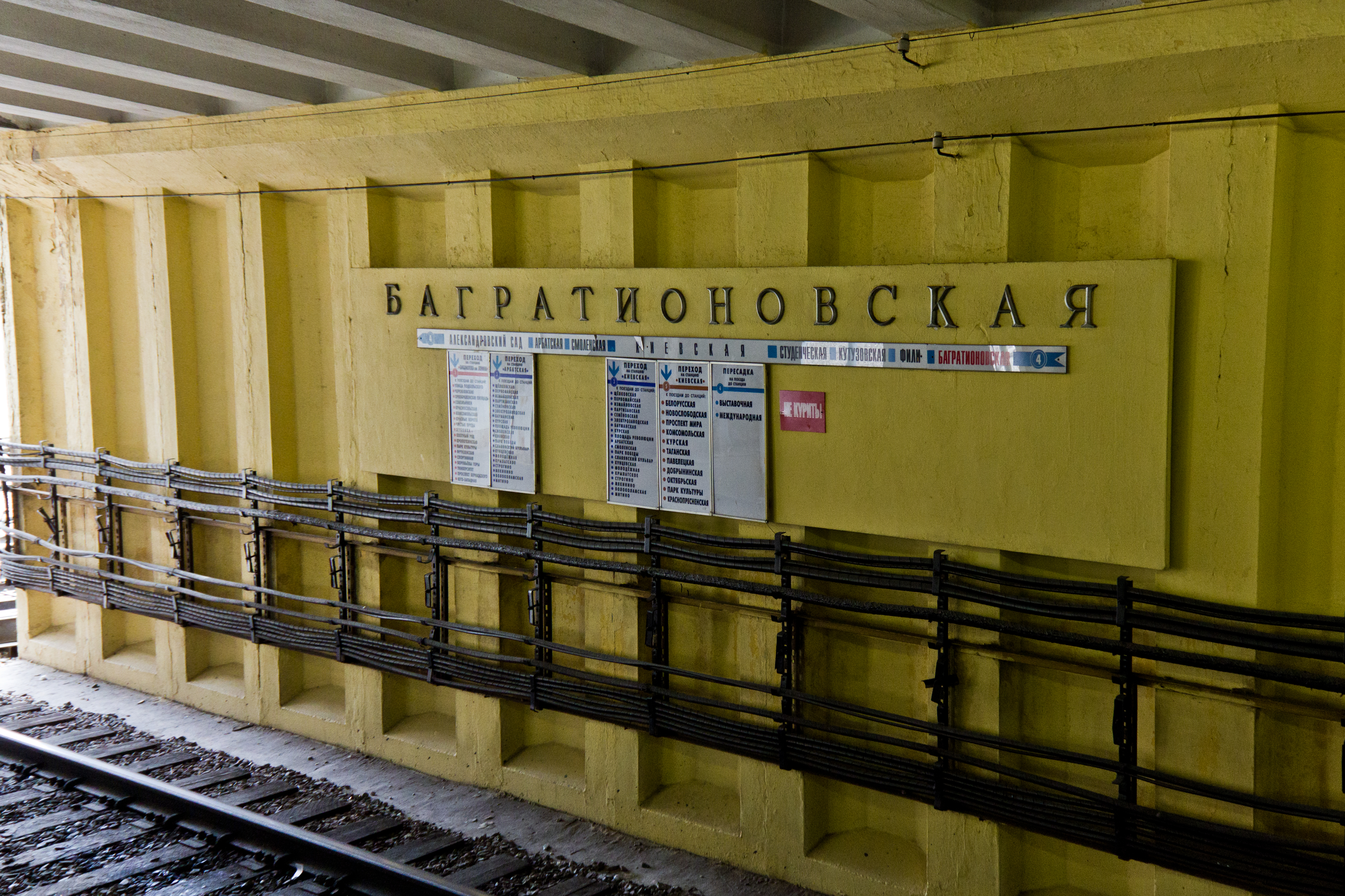 Bagrationovskaya Moscow Metro station.